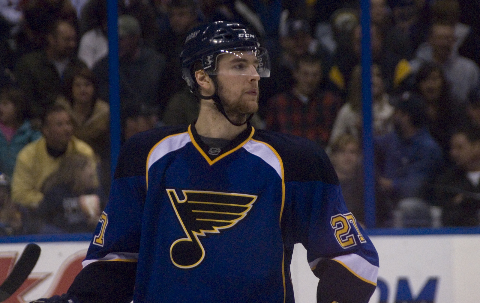 Alex Pietrangelo Anaheim Ducks versus St. Louis Blues. National Hockey League (NHL)